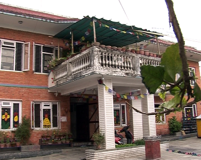 Home for children